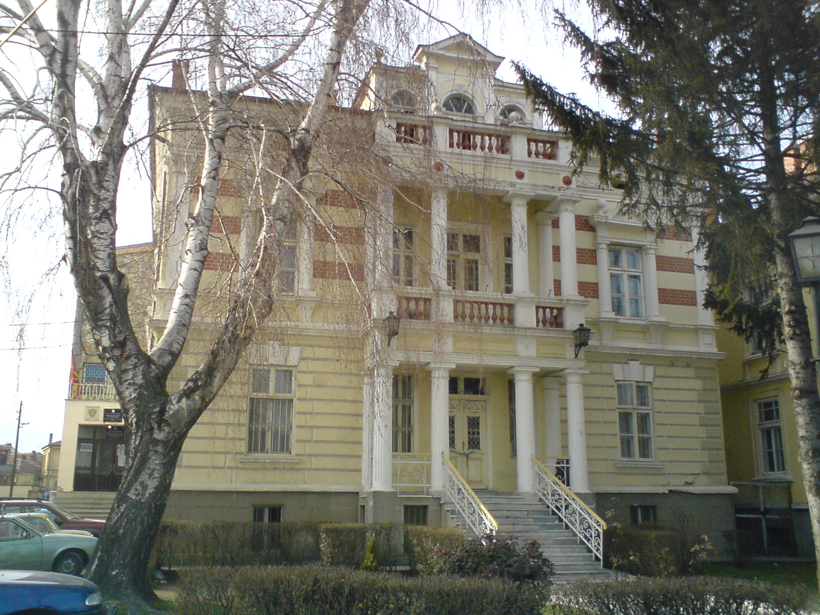 The building of the Slavic University of Moscow in Bitola